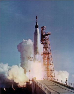 liftoff of the Mercury-Atlas 8 (MA-8)